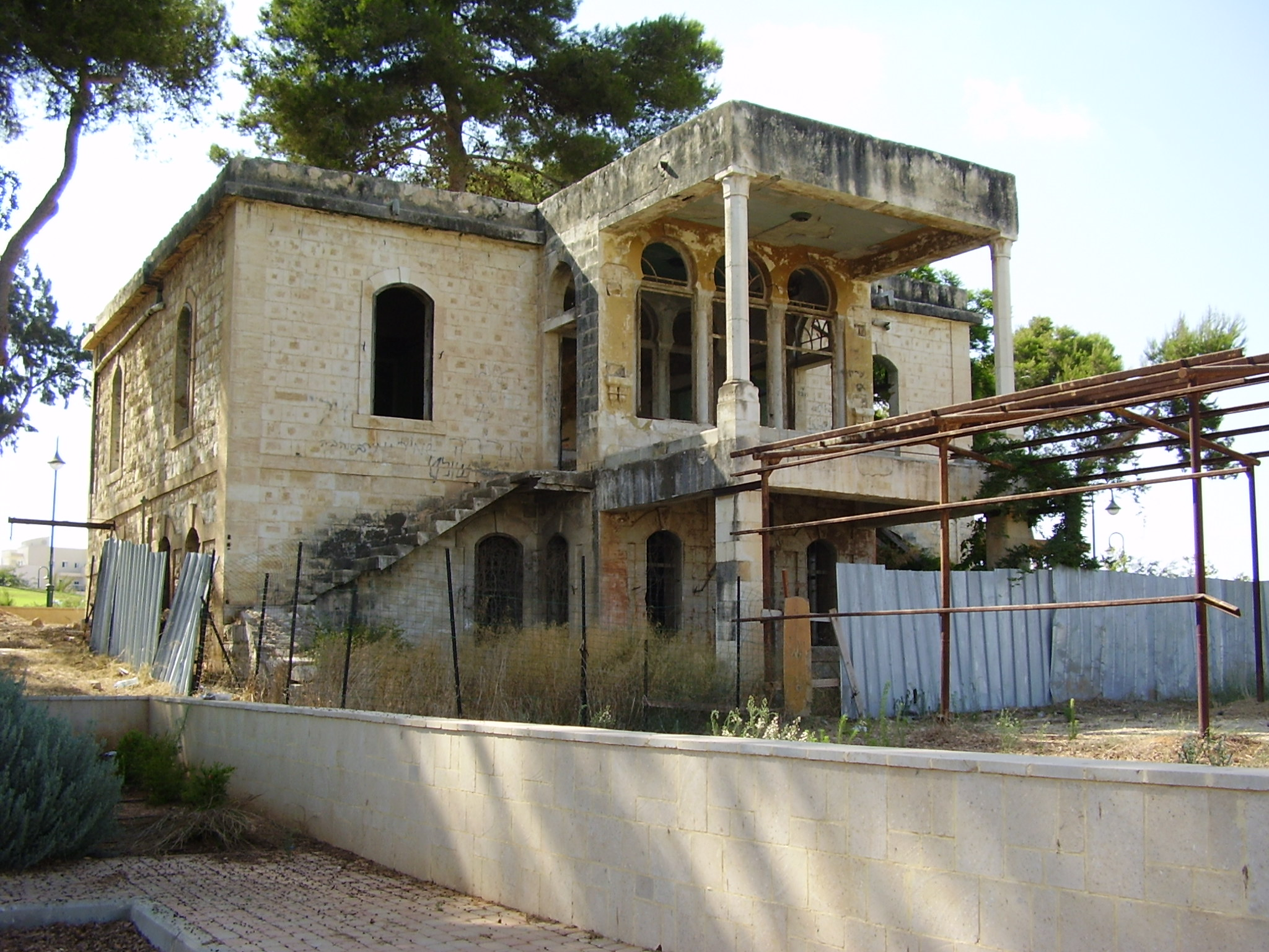 nabulsi house-kfar yona